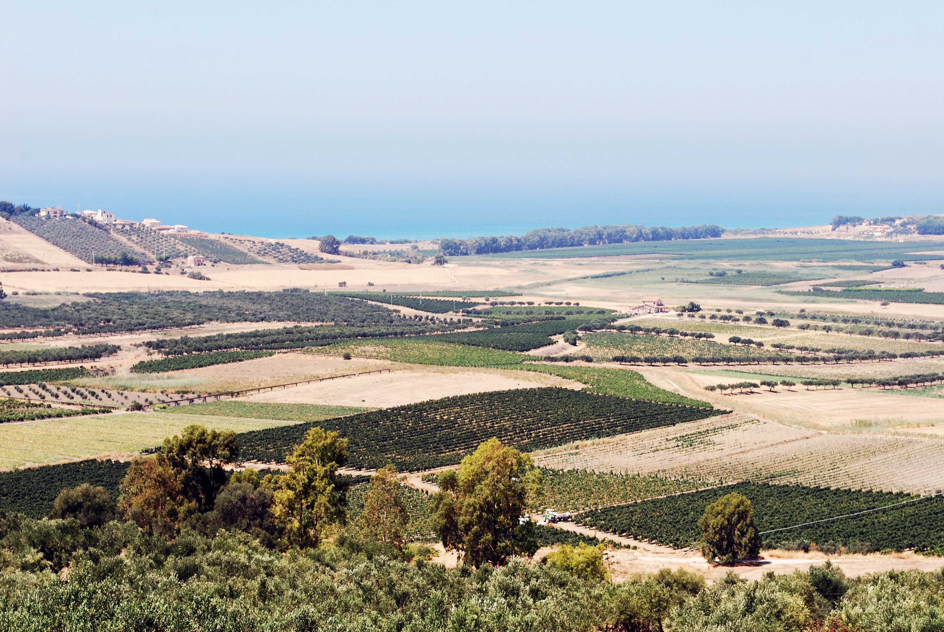 Vineyards and olive groves stretch to the Mediterranean along the Belice Valley in the heat of August. Menfi, Sicilia - Italy.